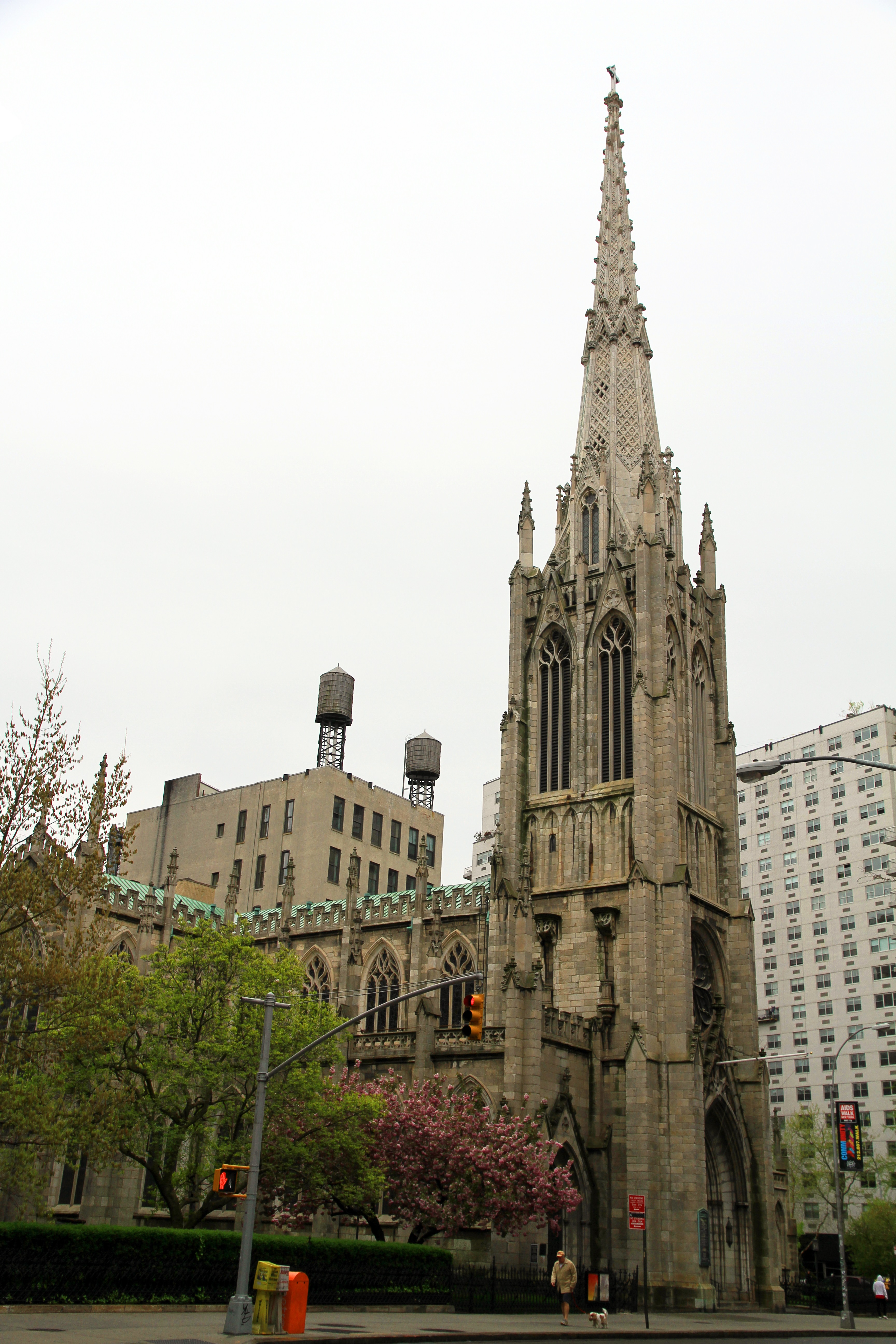 Grace Church